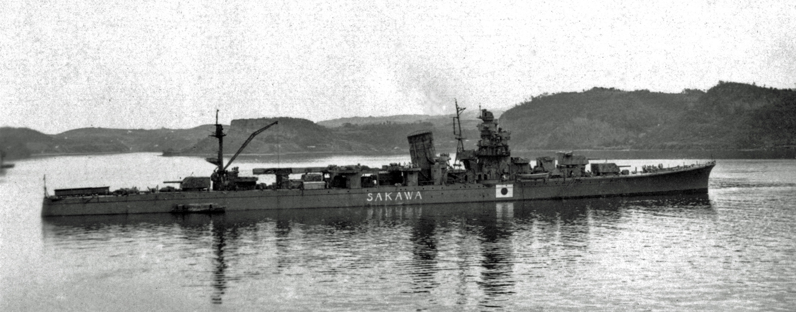 Japanese cruiser Sakawa, Sasebo, Kyushu, Japan, 15 October 1945.